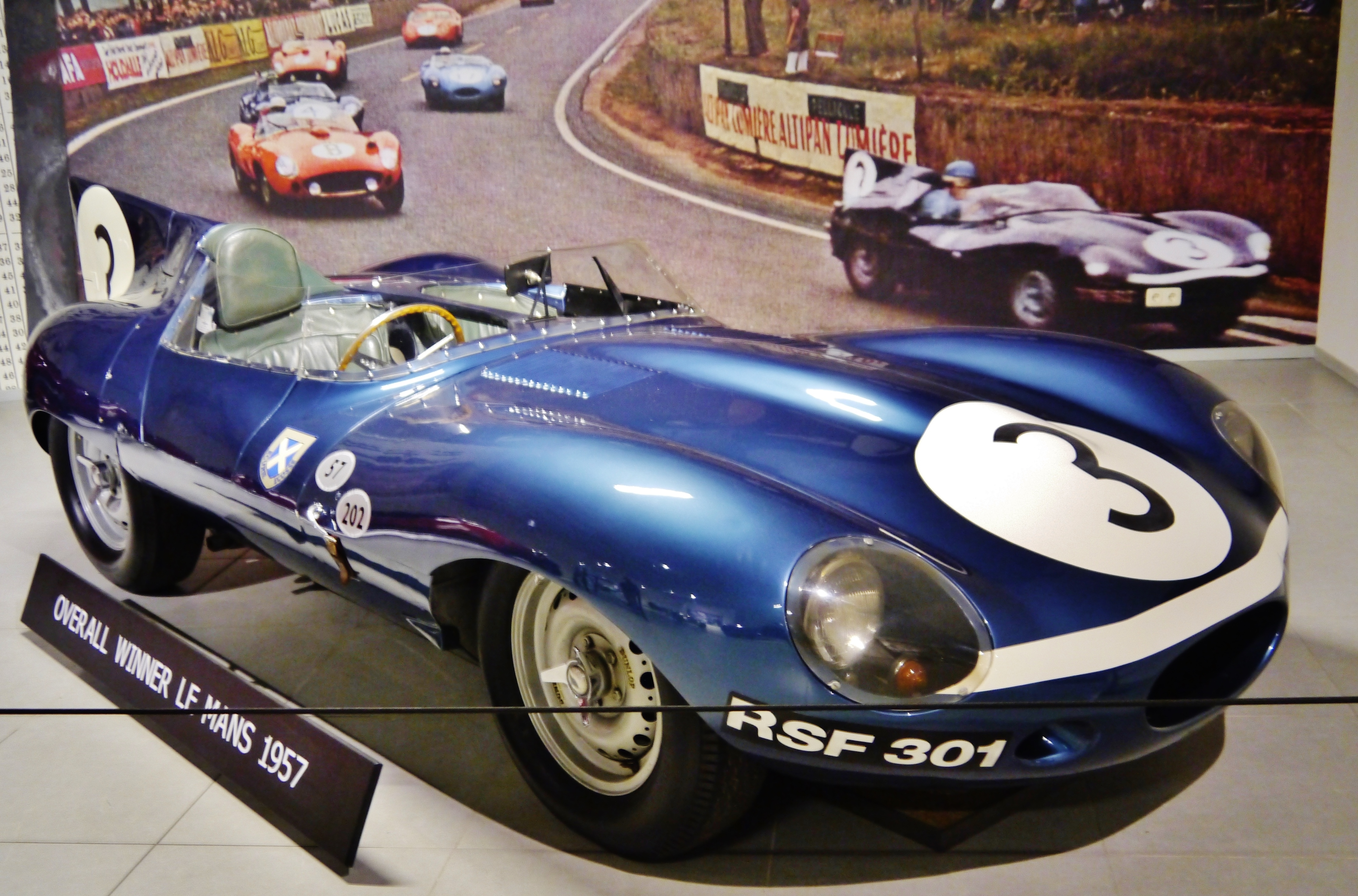 National Automobile Museum/Louwman Museum, The Hague, Province of South Holland, Netherlands